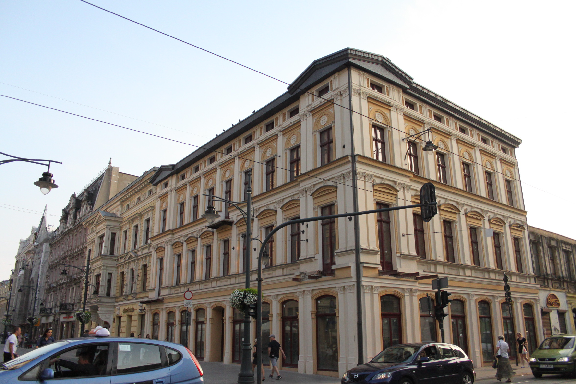 47 Piotrkowska Street tenement house in 2017